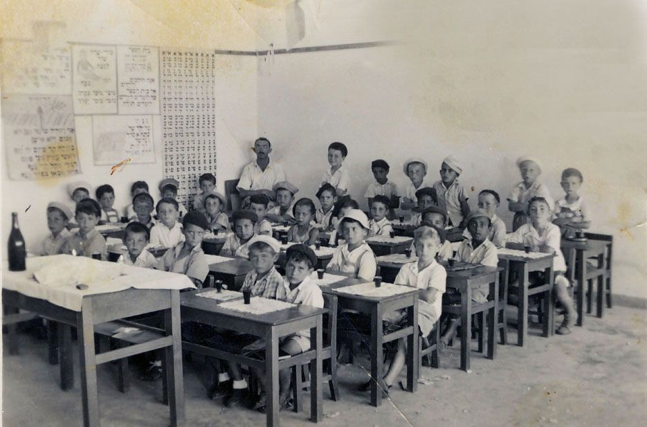 Klas a Netzach Israel School, Petah-Tikva, Education in Israel